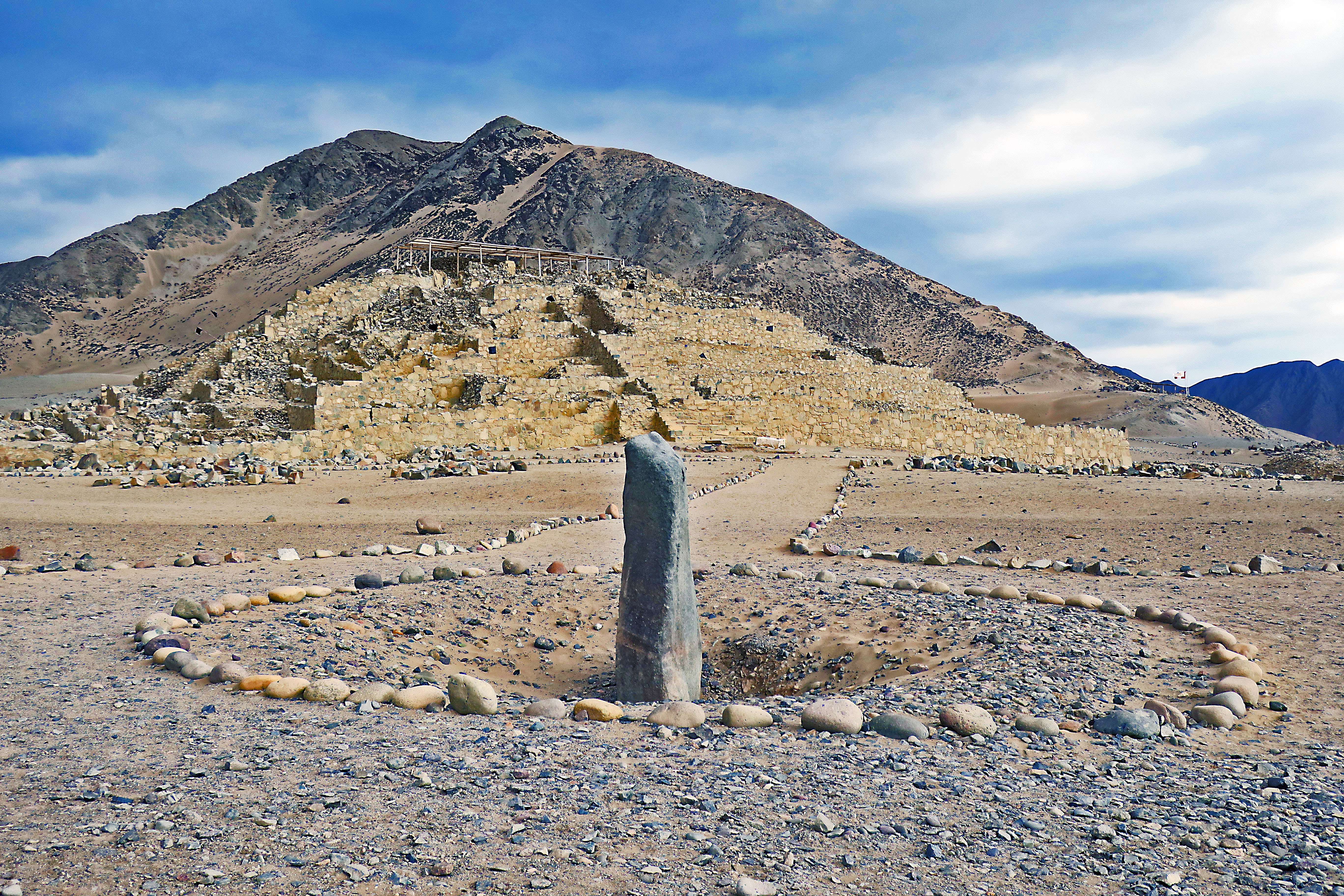 Sacred City of Caral-Supe